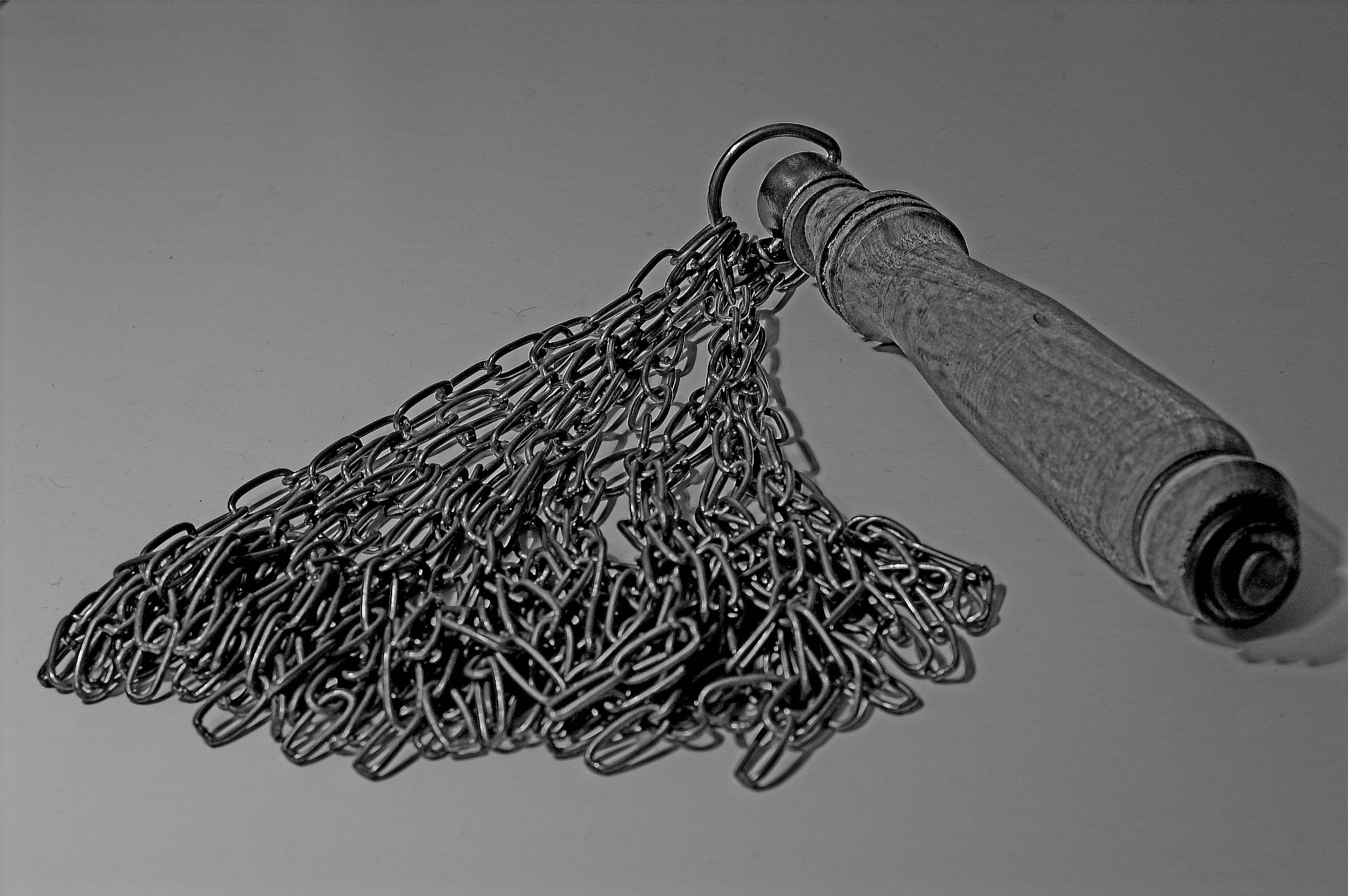 Zanjir from Iran. Used during Ashura, while mourning Imam Hossein. Men use it for self beating. This one is made of small chains.